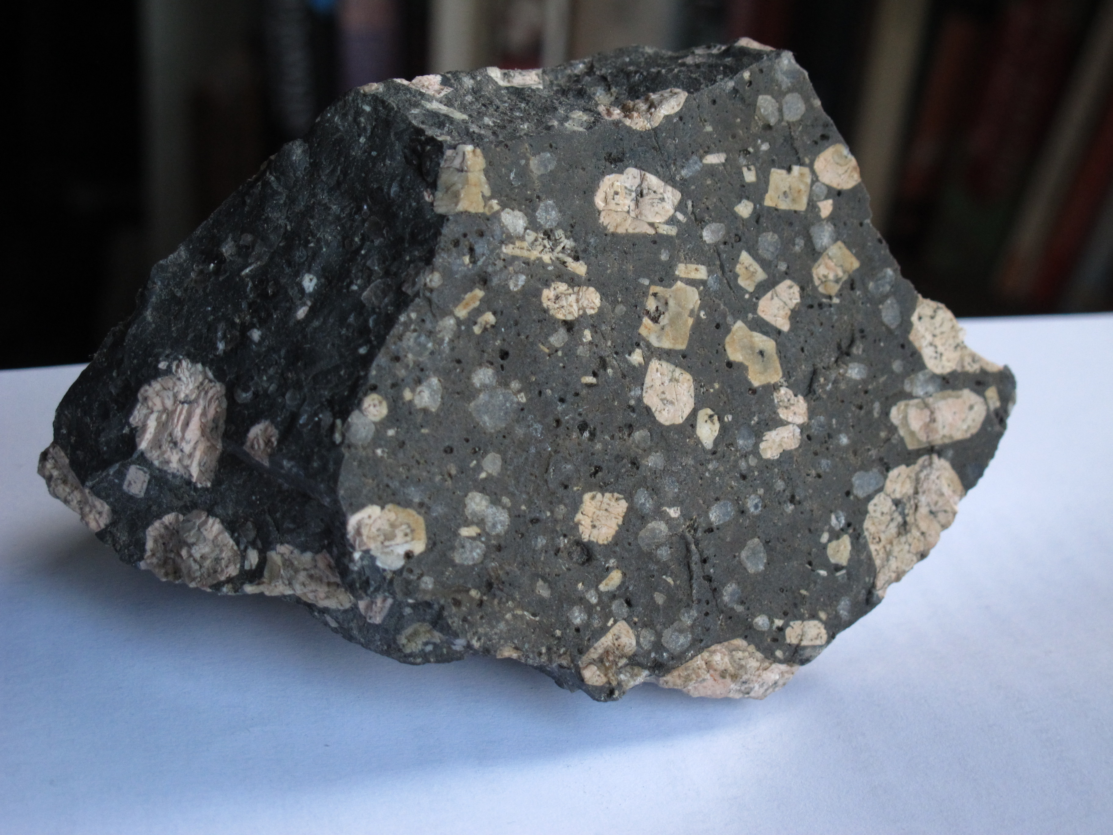 Sample of Quartz-porphyry from the island of Alnӧ, near Sundsvall, Sweden - phenocrysts of clear glassy rounded quartz and white orthoclase feldspar are set in a fine-grained matrix